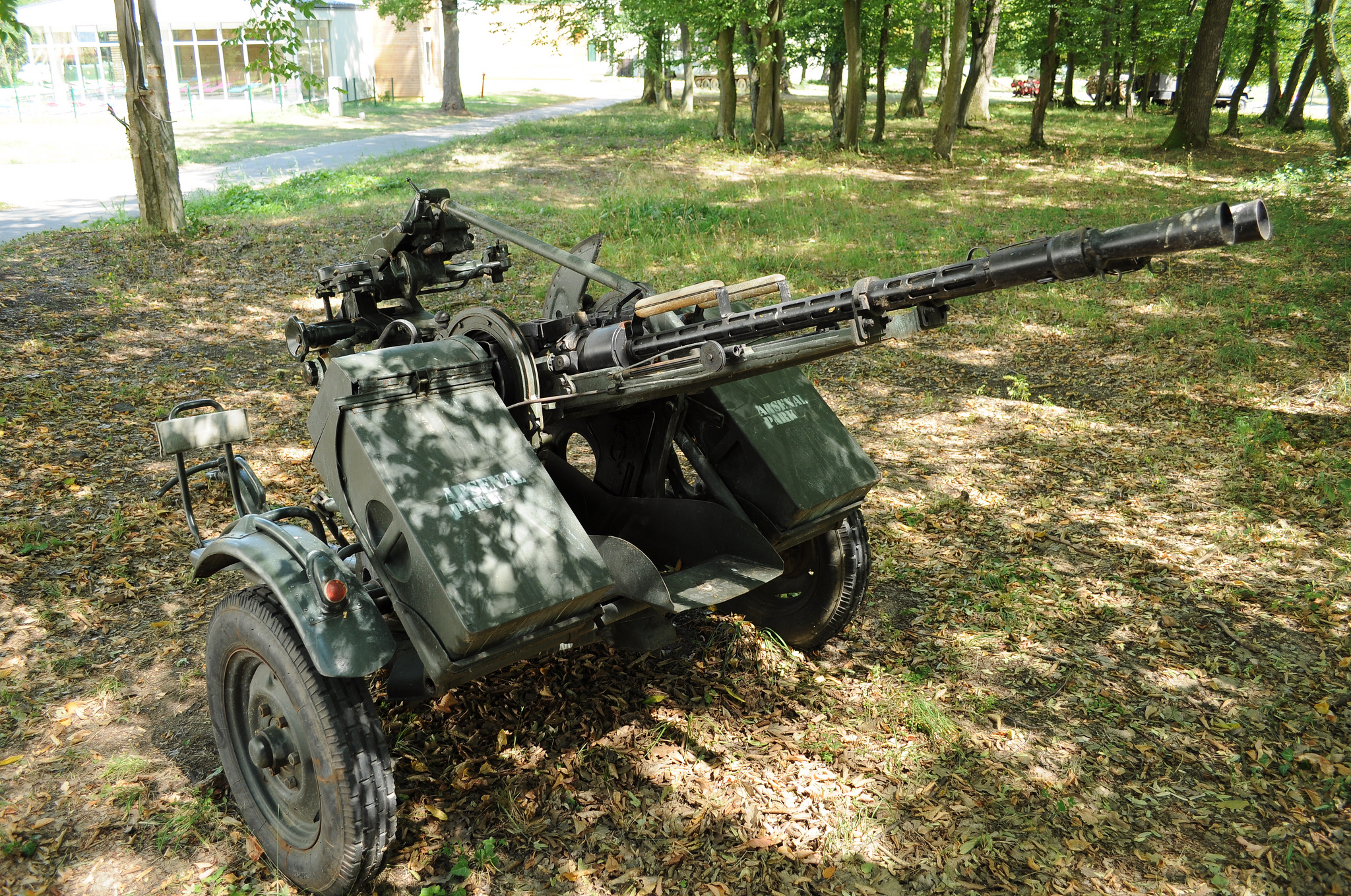 ZU-2 anti-aircraft machine gun on display at Arsenal Park, Orăștie.